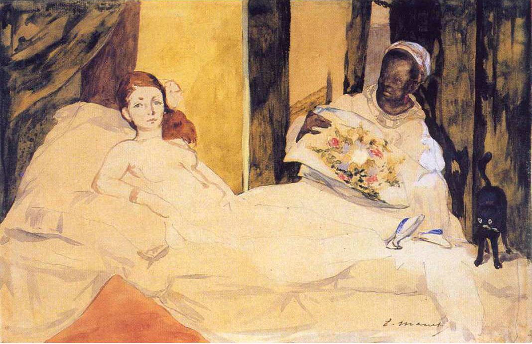 Édouard Manet's study for Olympia